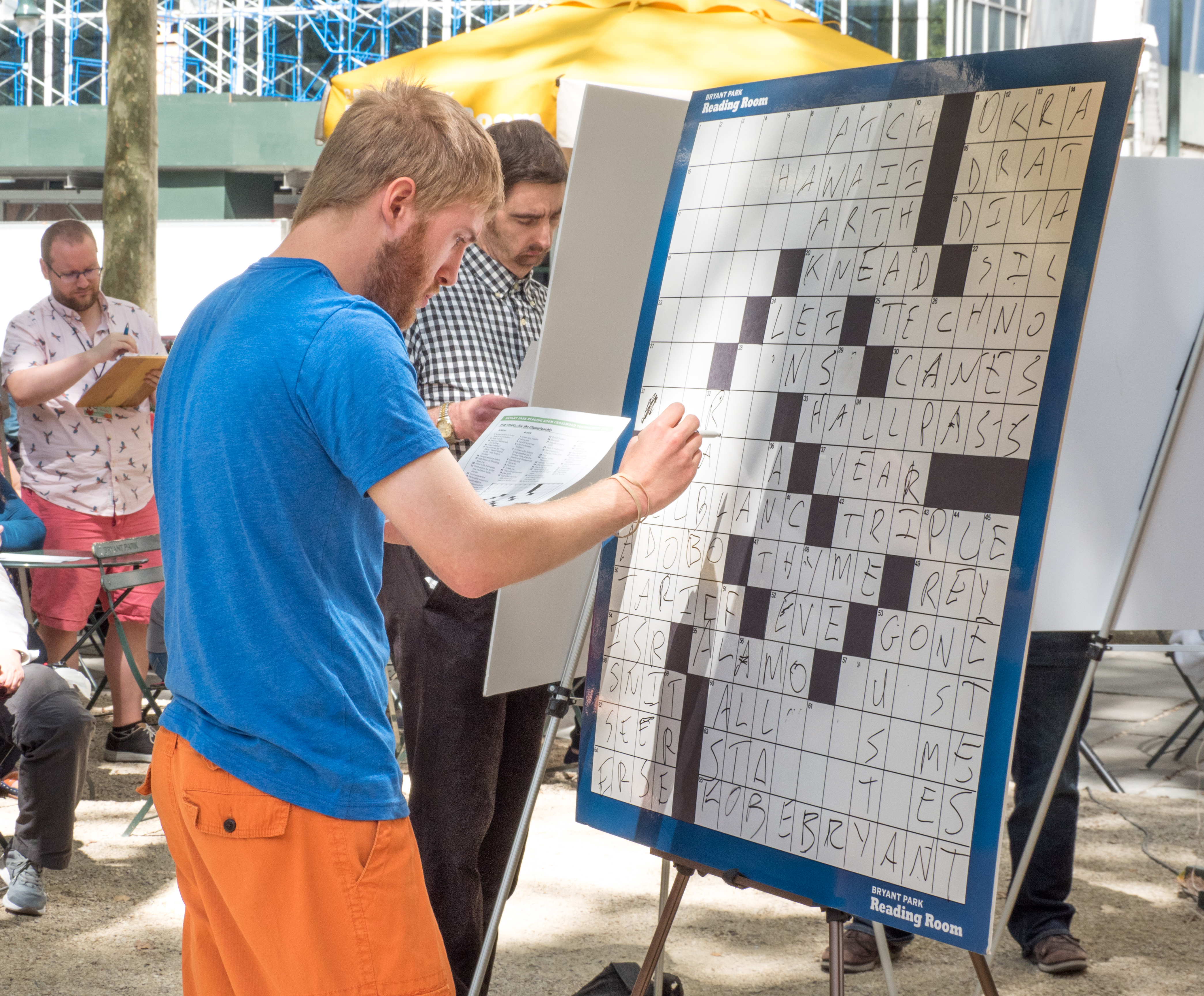 Bryant Park Coffee and Crosswords competition finals